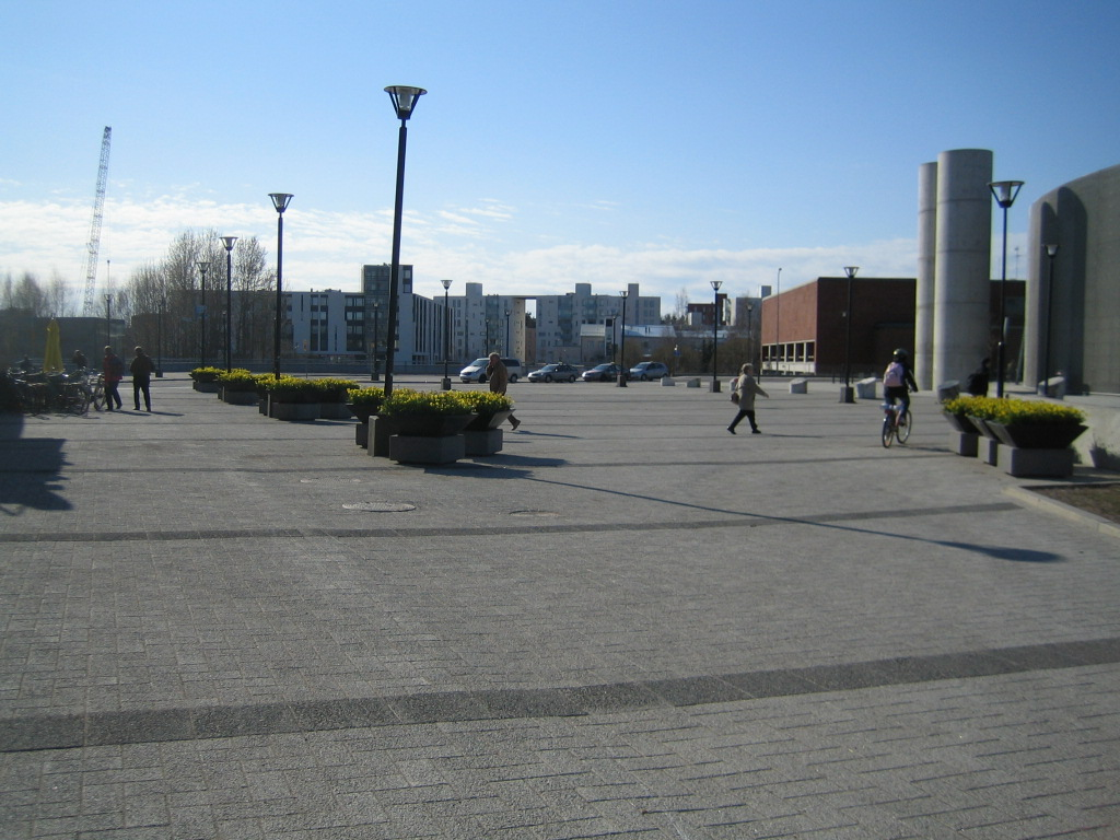 Mosaiikkitori, Vuosaari, Helsinki. The building on the far right is the Vuotalo Cultural Centre.